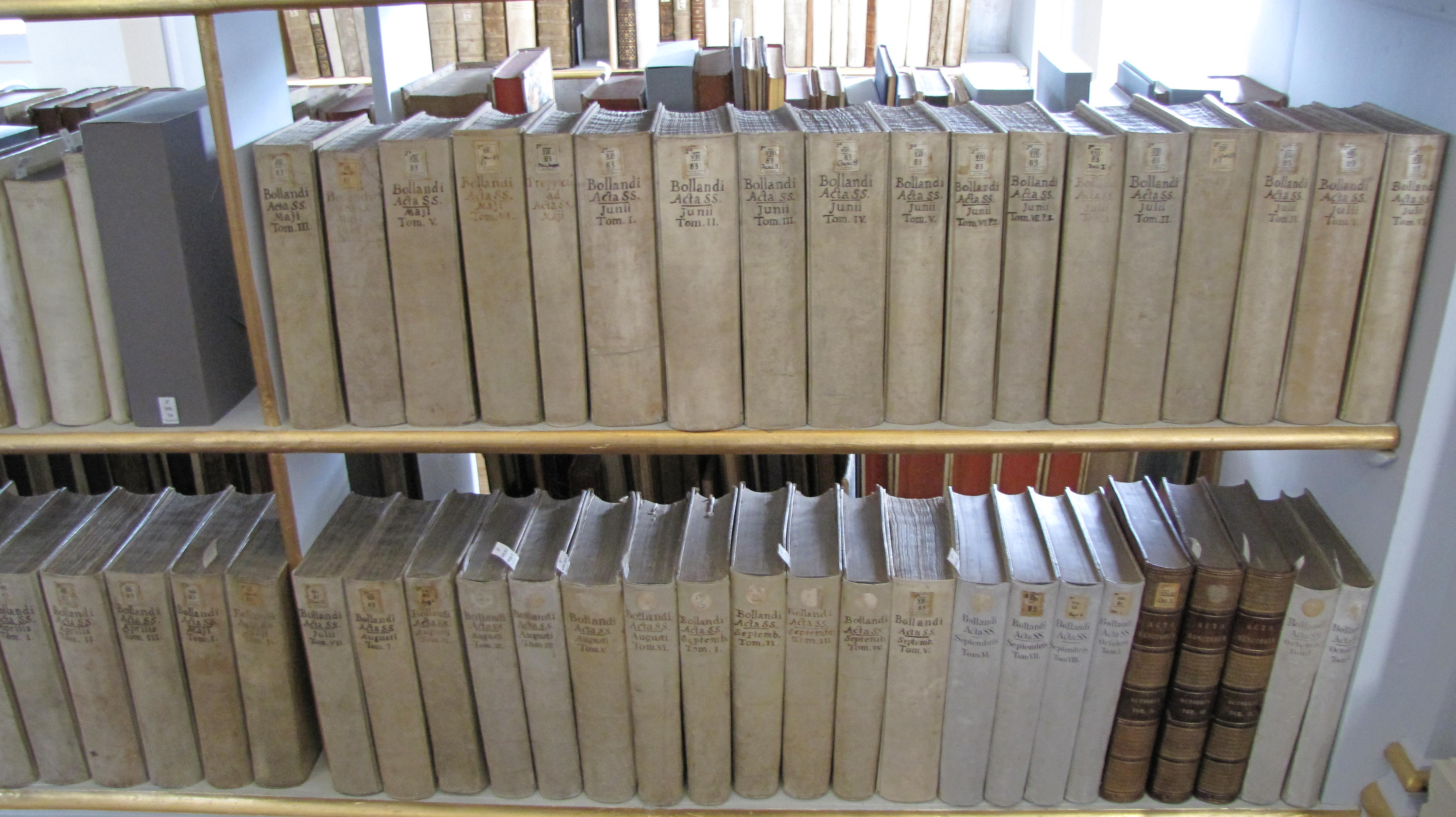 Voumes of the ACTA SANCTORUM in the Duchess Anna Amalia Library in Weimar